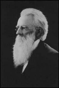 Mason Brayman (May 23, 1813 – February 27, 1895) was an American attorney, newspaperman, and military officer. During his service to the Union Army during the American Civil War he rose to the rank of Brigadier general. Later in life, he became the seventh Governor of the Idaho Territory